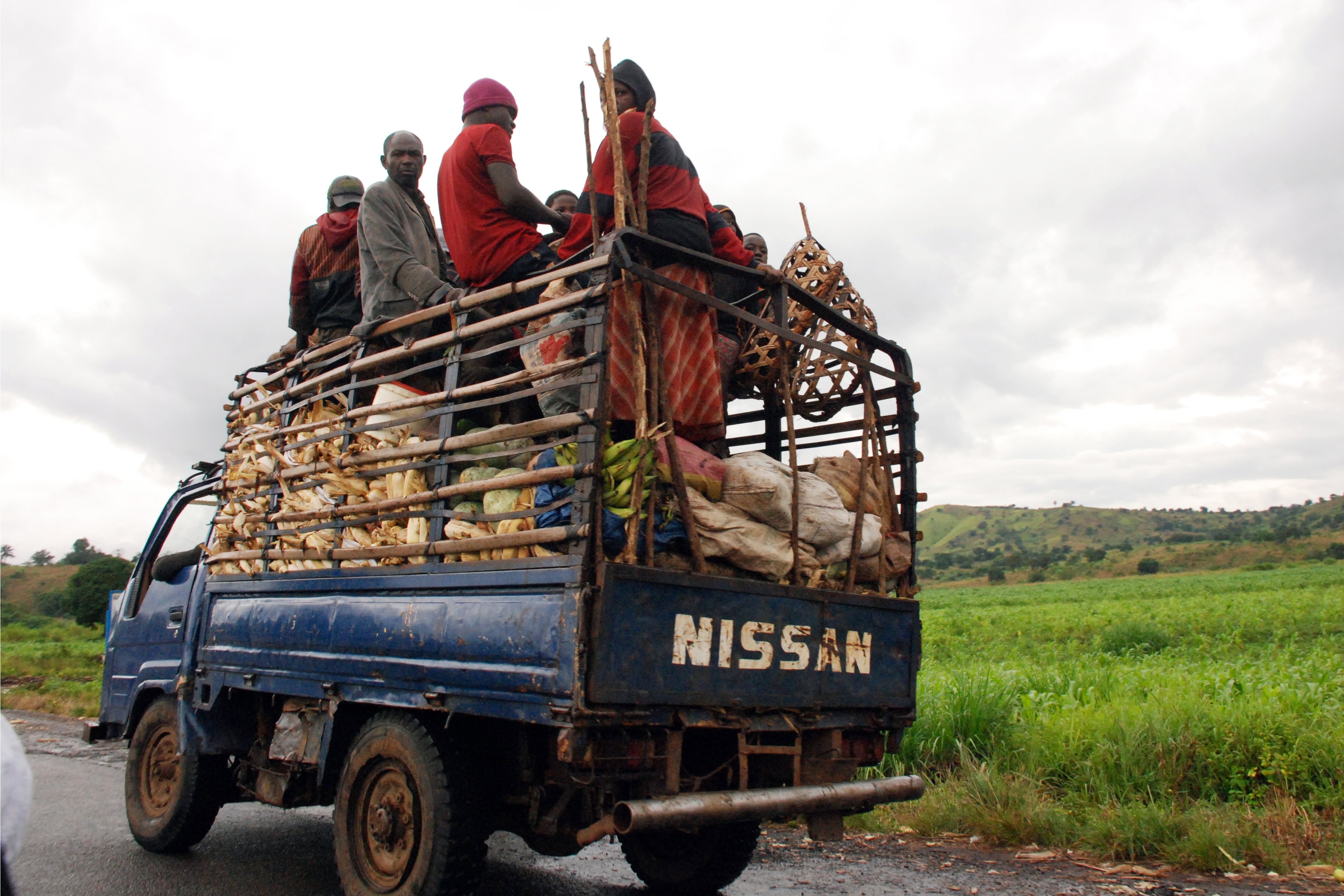 Des fermiers du retour de leur ferme en periode de recolte